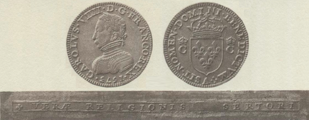 1573 Piedfort coin of Charles IX, as well as its edge lettering (pictured below)